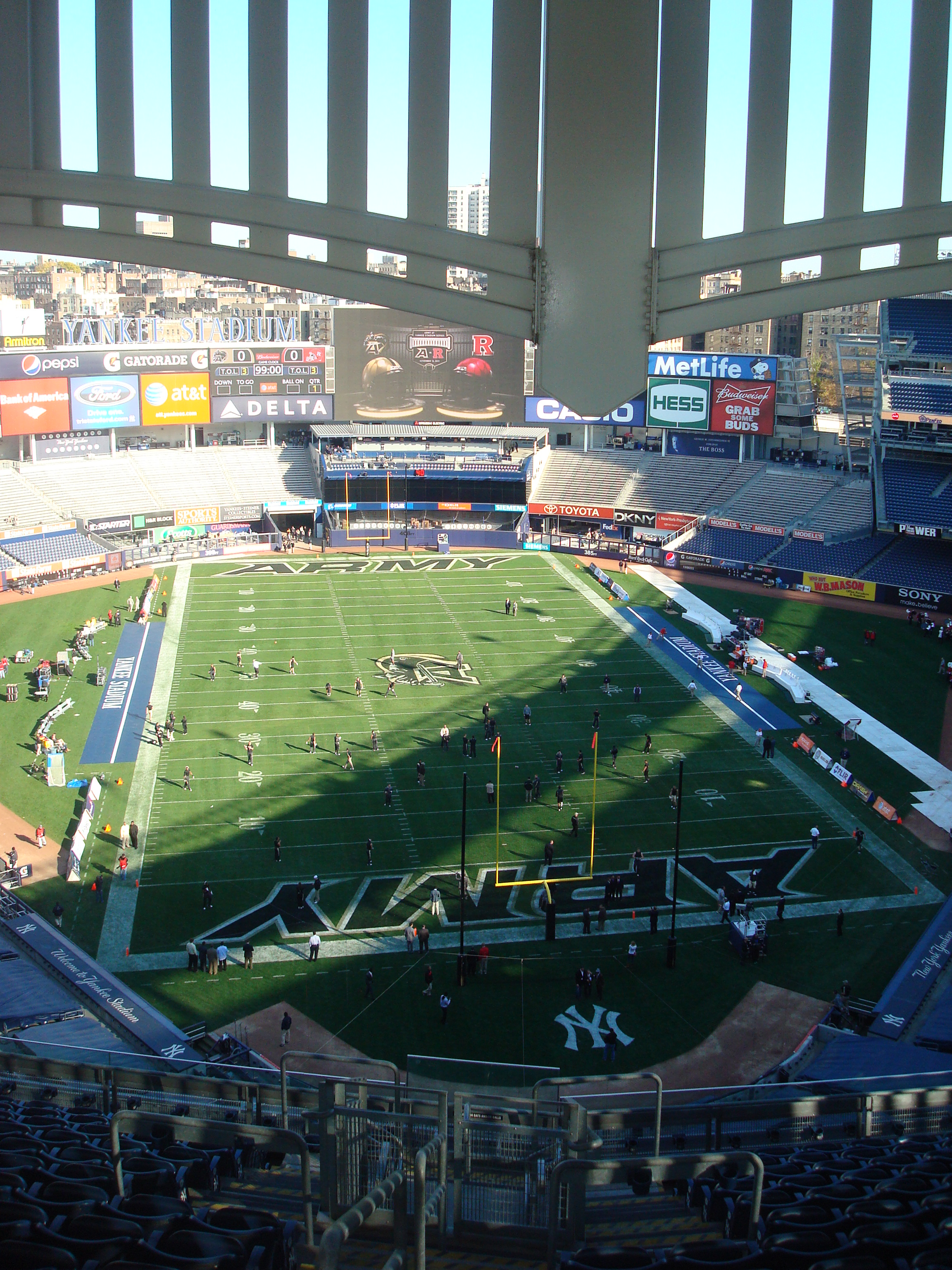 Yankee Stadium set up for the November 12th, 2011 Rutgers-Army football game. Rutgers would win the game, 27-12